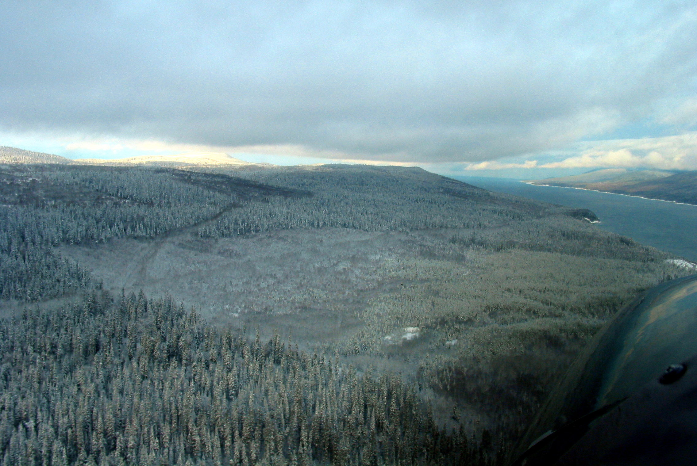 This is near the Nation Arm